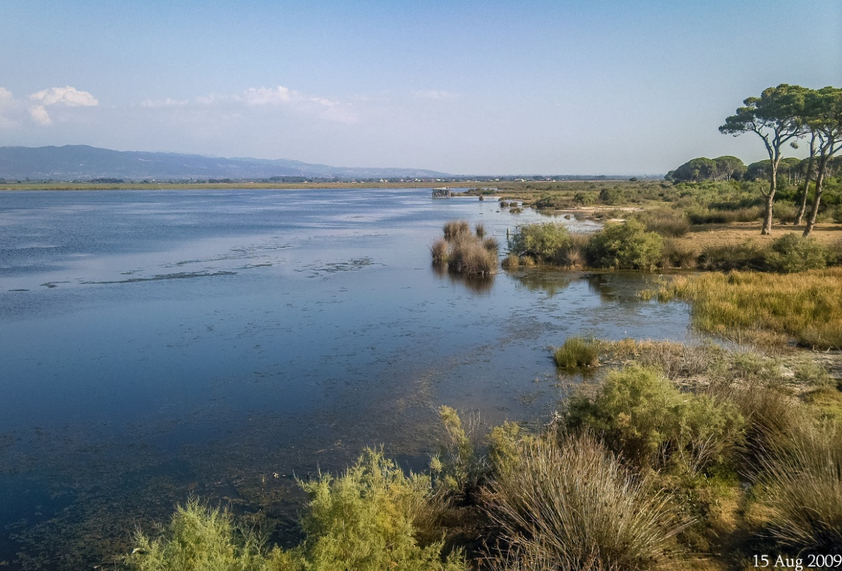 Prokopos Lagoon (or Prokopou Lagoon), Achaia, Greece.